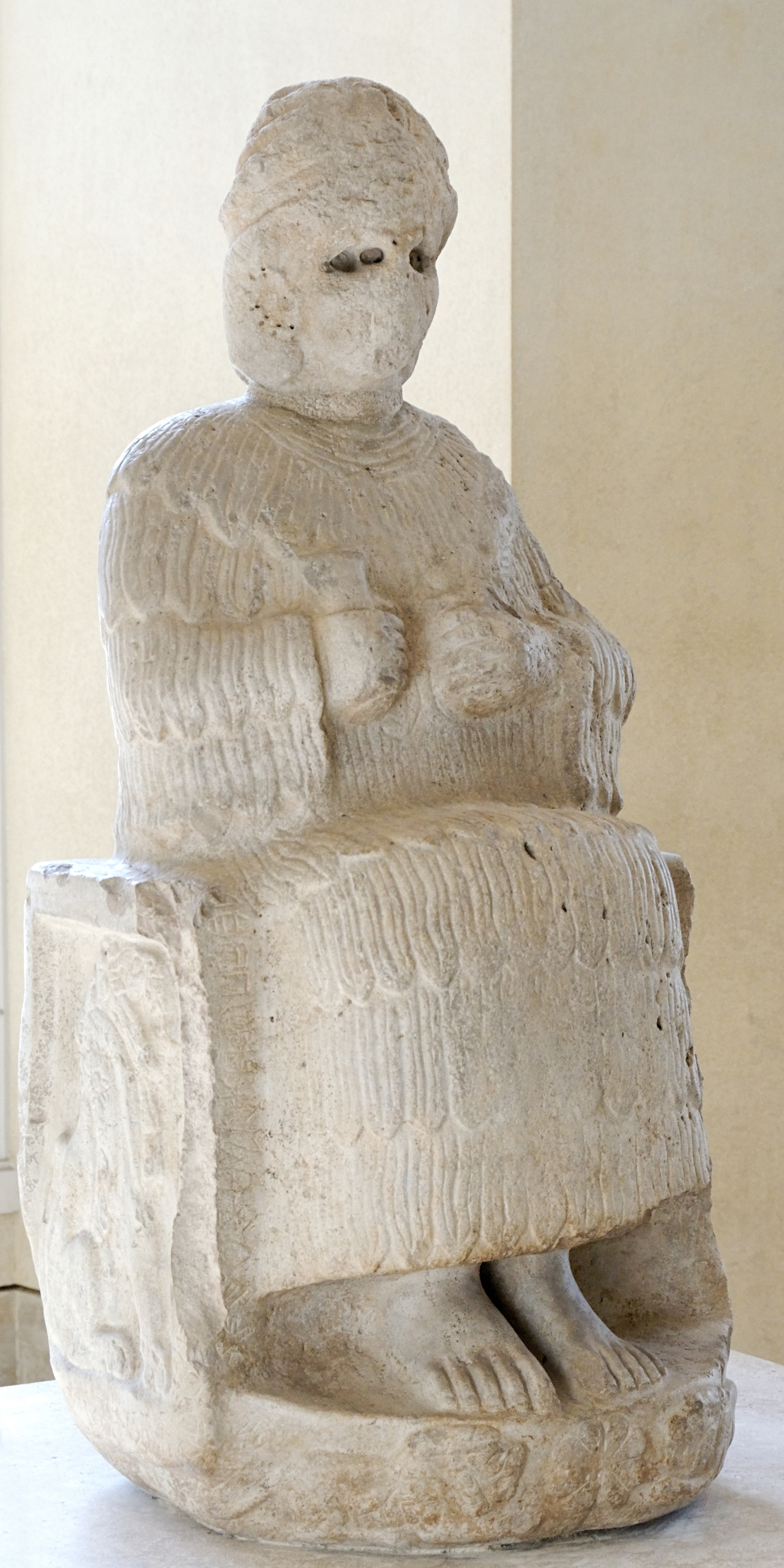 Statue of Narundi wearing the kaunakes, with Elamite and Akkadian inscriptions. Limestone, reign of Puzur-Inshushinak, ca. 2100 BC. From the Acropolis at Susa.